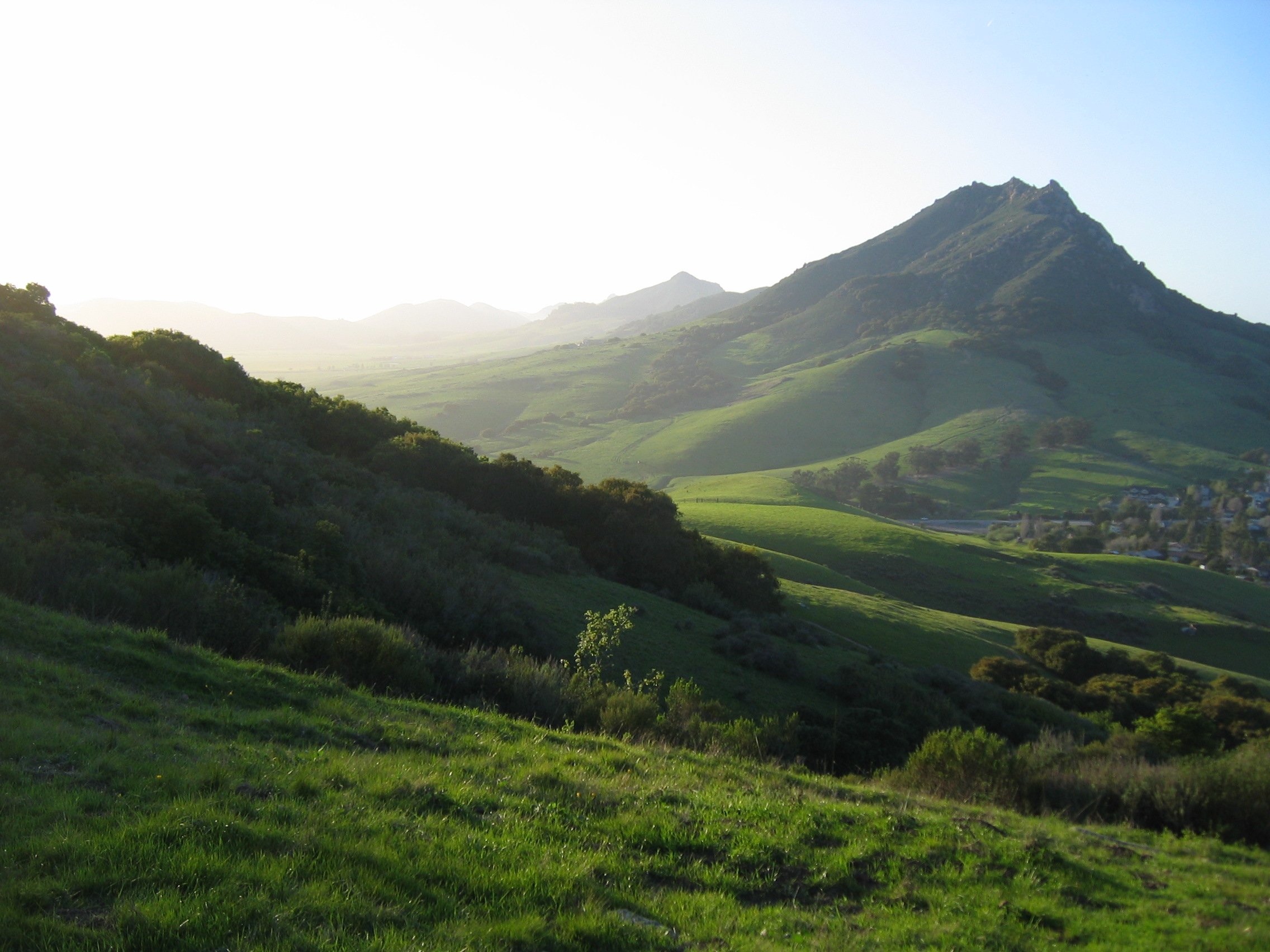 Bishop Peak, San Luis Obispo, California, from Cerro San Luis (Madonna Mountain).